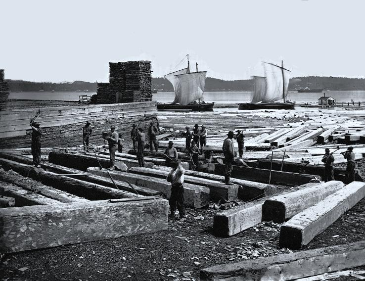 Photograph, Butting square timber, Quebec City, QC, 1872, William Notman (1826-1891), Silver salts on glass - Wet collodion process 20 x 25 cm